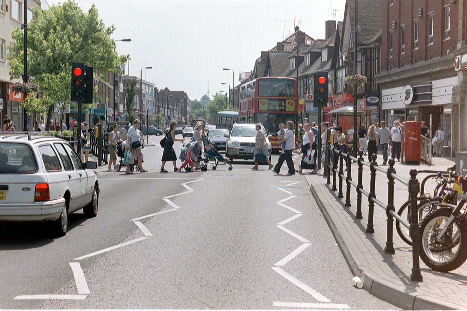 Orpington High Street, 14 June 2003, looking south (Photo: Patrick Neylan)